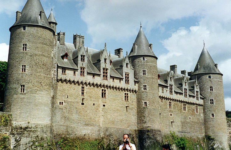 The Chateau of Josselin in Brittany, France. One of the most impressive castles in France, the ChÃ¢teau de Josselin is open to visitors. The castle looks across the River Oust. It was built from wood in about 1000 AD by the Count of PorhoÃ«t and named after his second son, Josselin. The castle was continually expanded over the next 500 years but total rebuilding was needed after Henry II of England destroyed most of it in 1168. In 1629 Cardinal Richelieu had five of the castle's nine towers pulled down. Best seen from the bridge over the river Oust, from where it looks severe and unwelcoming with the massive walls and three towers rising straight from the river-bank. Visitors can see five highly-decorated rooms along the main floor. The castle is still the home of the Rohan family. The present Duchess has had the 19th century stables converted into an interesting MusÃ©e de la PoupÃ©e, or Doll Museum, with an extensive collection of antique dolls and dolls' furniture from all over the world. You can visit this separately from the castle.